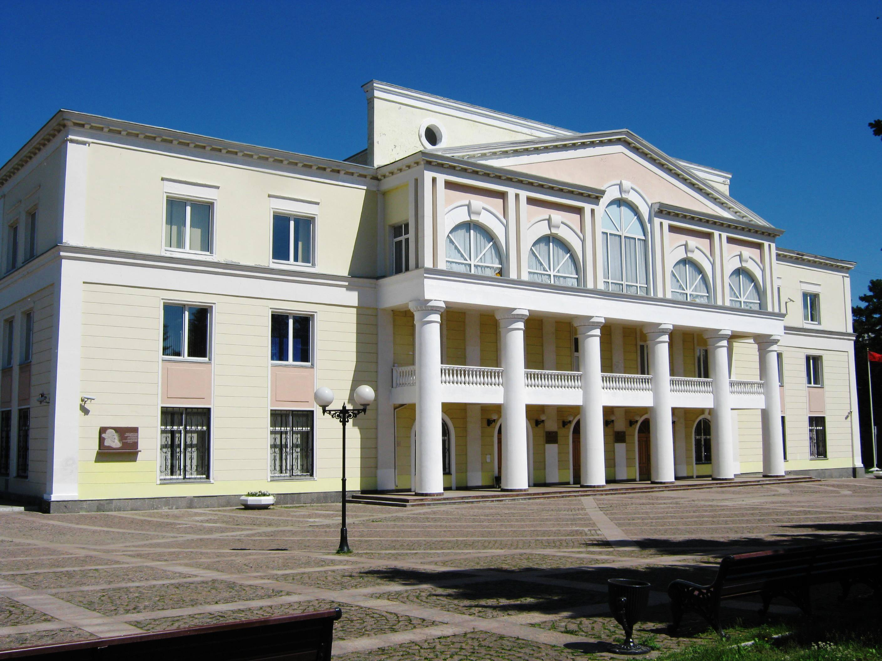 Дом культуры "Вперёд" (Долгопрудный)